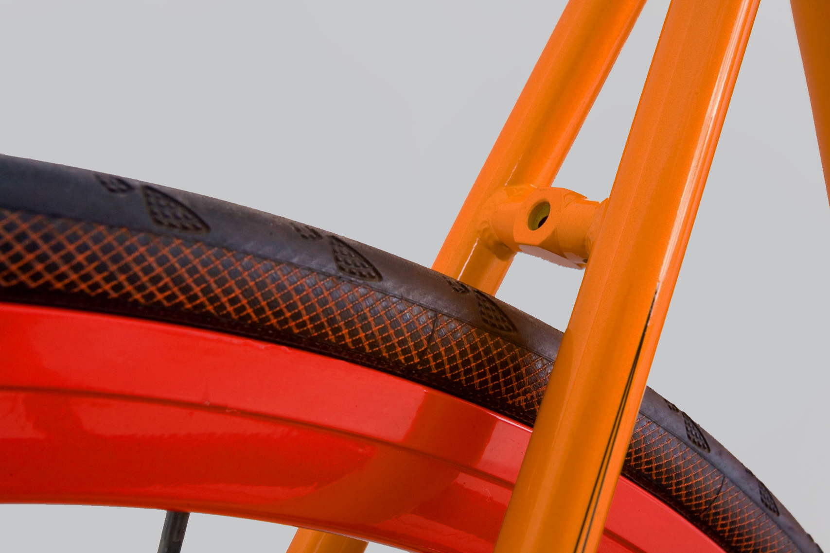 Continental on a Mercier